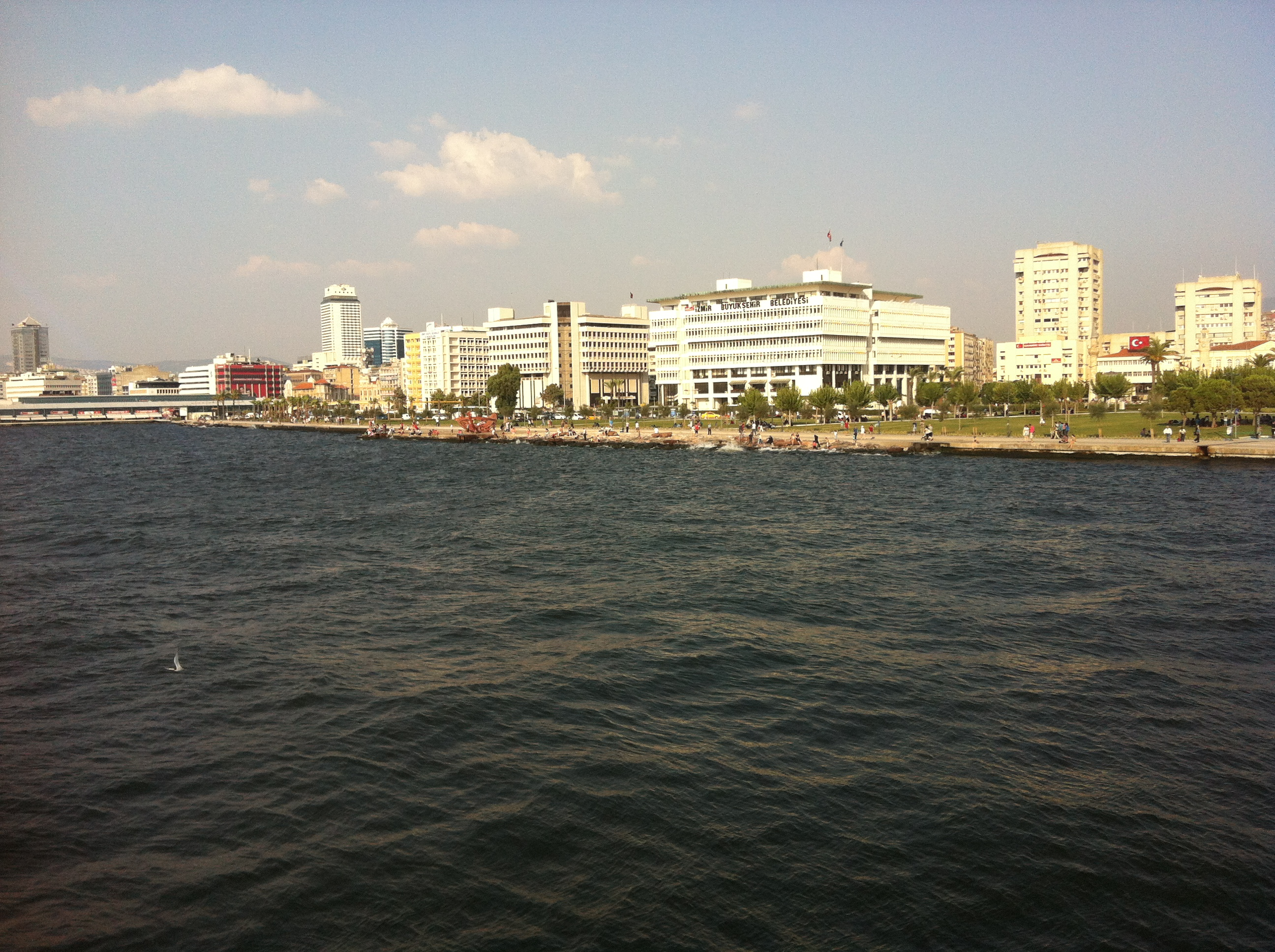 İzmir Metropolitan Municipality building